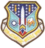 308th Strategic Missile Wing emblem. A copy of this emblem was down loaded from for use in my book “STRATEGIC AIR COMMAND An Organizational History” with the permission and approval of Marvin T. Broyhill, Webmaster.